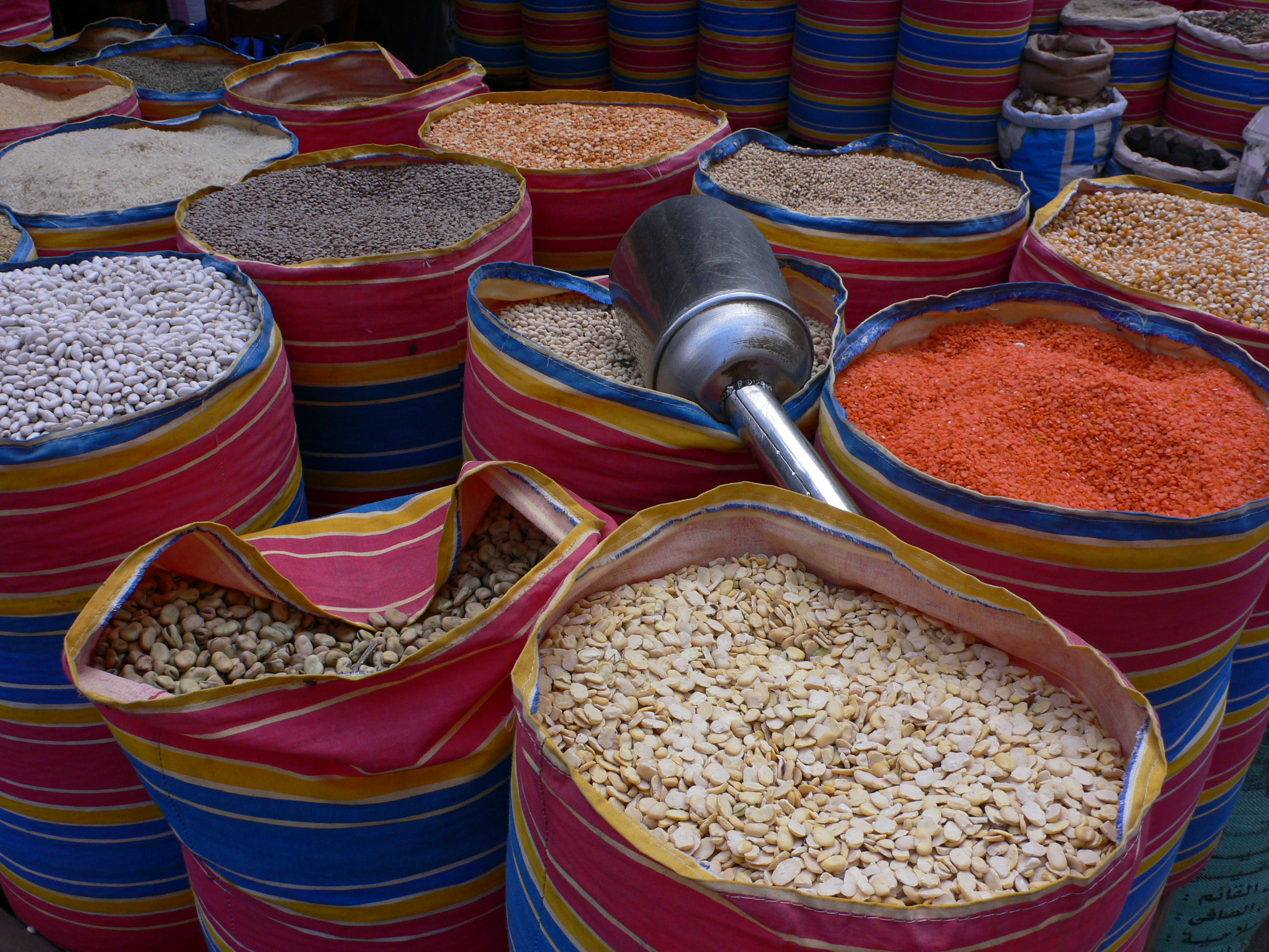 Beans and legumes on display in Alexandria